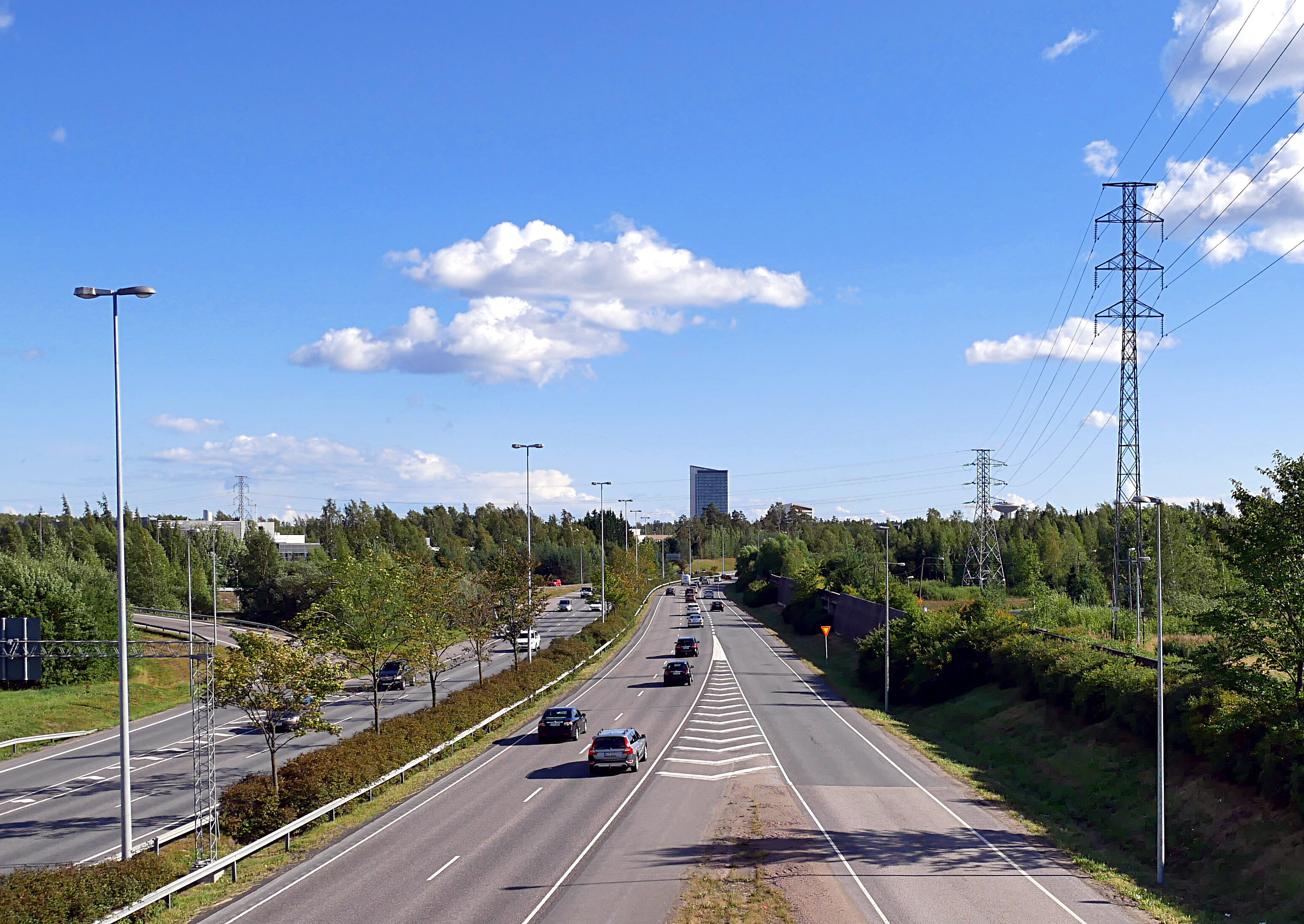 The Ring road "Kehä II" in Espoo, Finland. Southbound view.